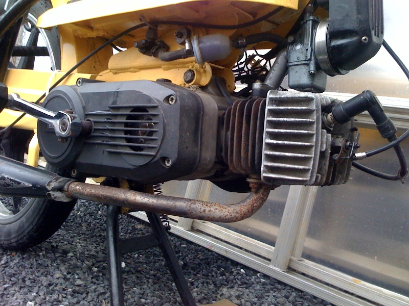 Engine from a Tempo Avanti 030 1987 mod.